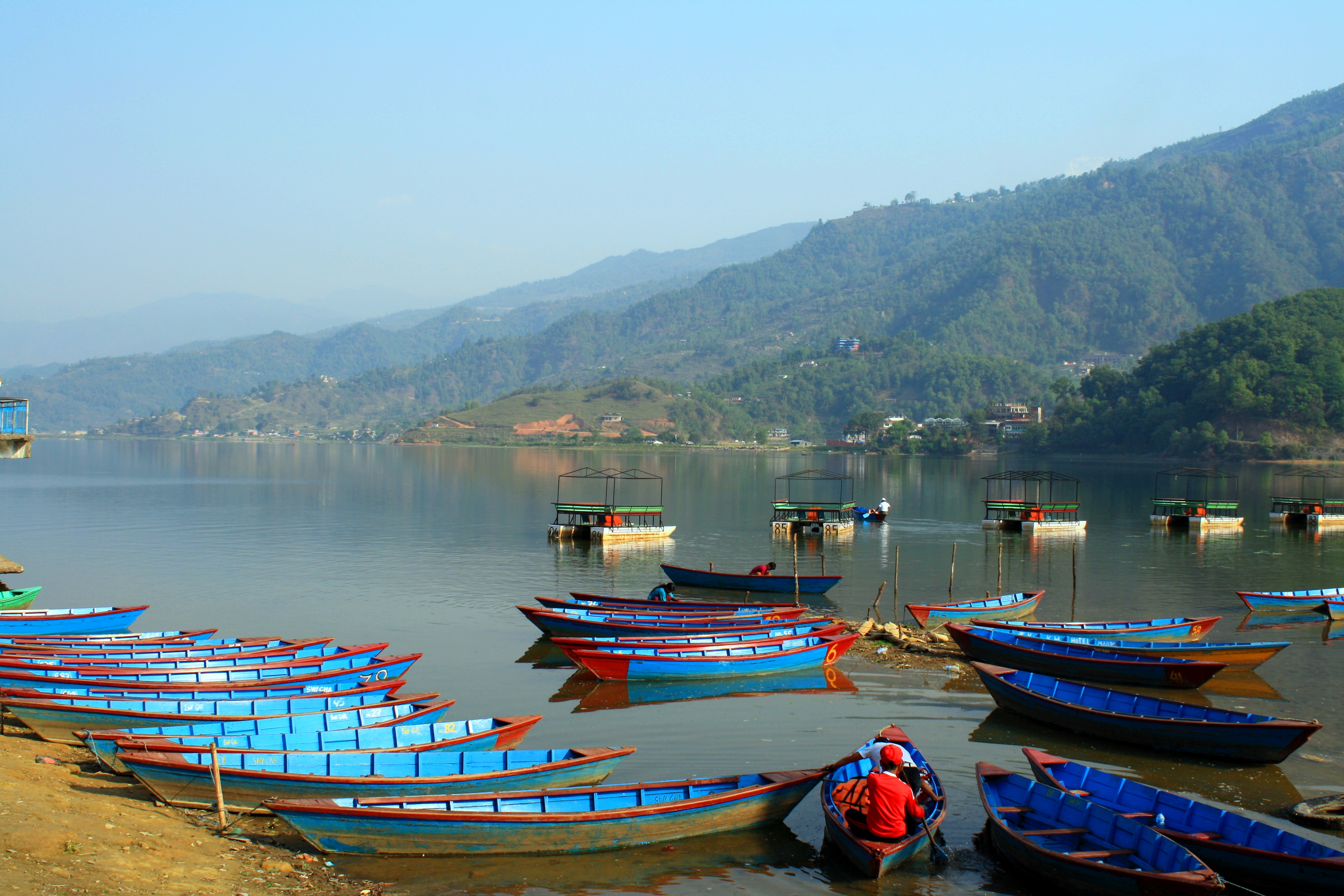 Boats in Lake Phewa Pokhara, Nepal